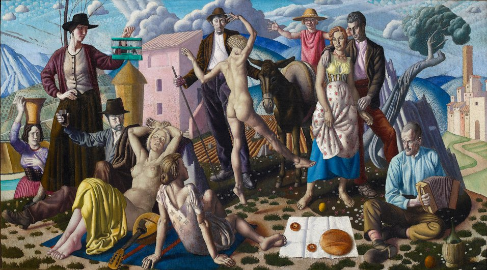 Allegro by Colin Gill, 1921, oil on canvas, 46 x 90 inches